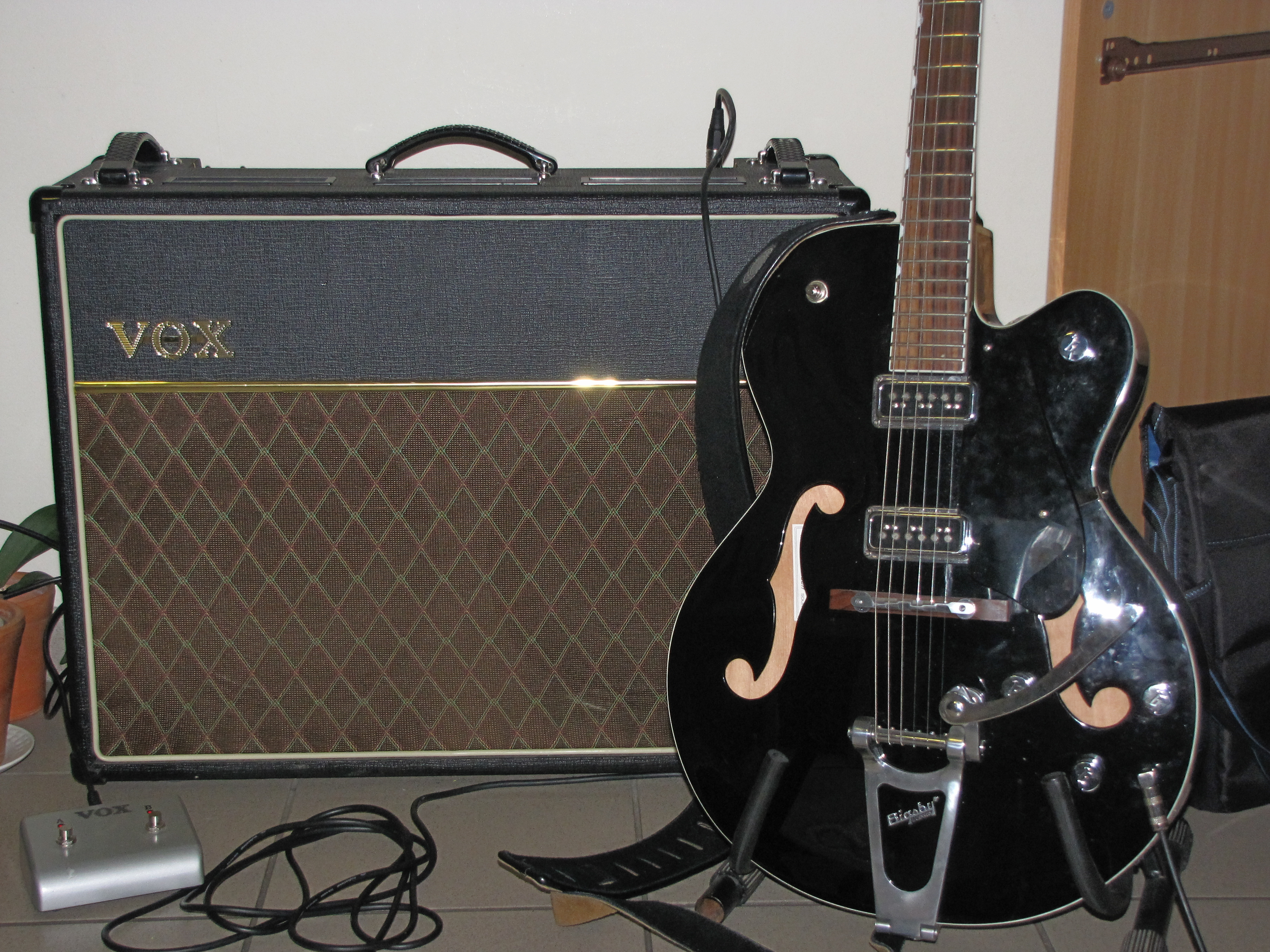 VOX AC30 CC2 + Gretsch G5120BK Electromatic Hollow Body